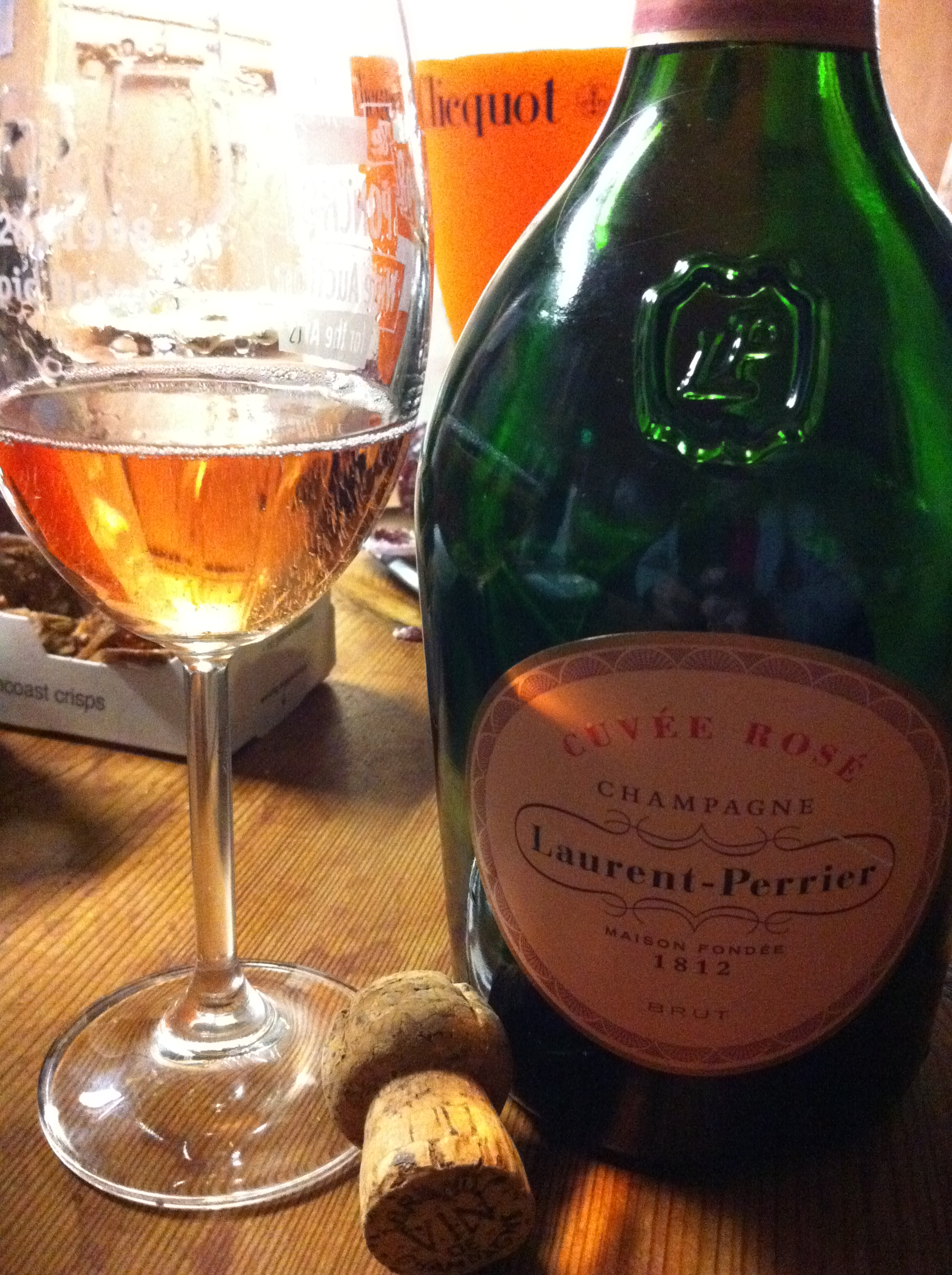 Rose Champagne from the French wine produce Laurent Perrier